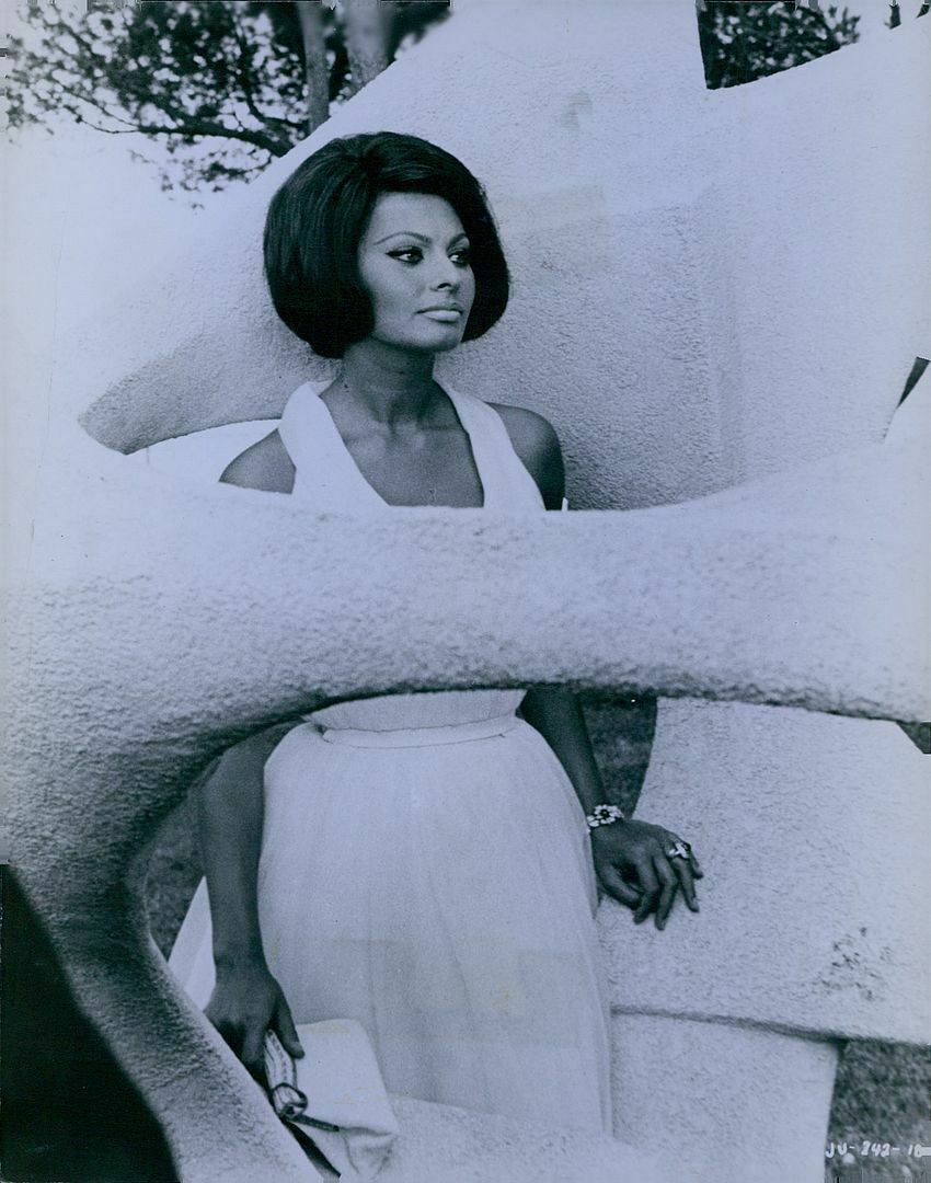 Sophia Loren as Miss Loren in "Judith", 1966